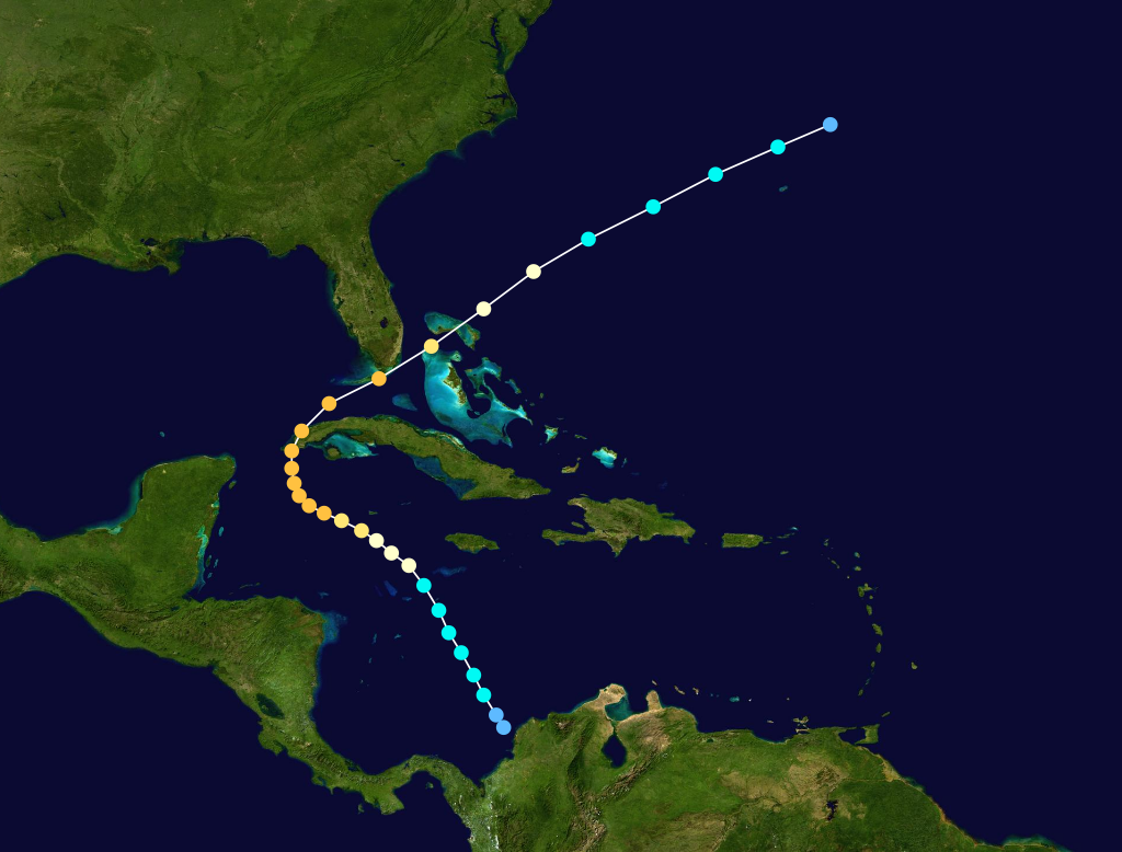 1909 Atlantic hurricane 10 track.png track. Uses the color scheme from the Saffir-Simpson Hurricane Scale.